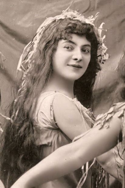 Photograph of the French opera singer, Ketty Lapeyrette